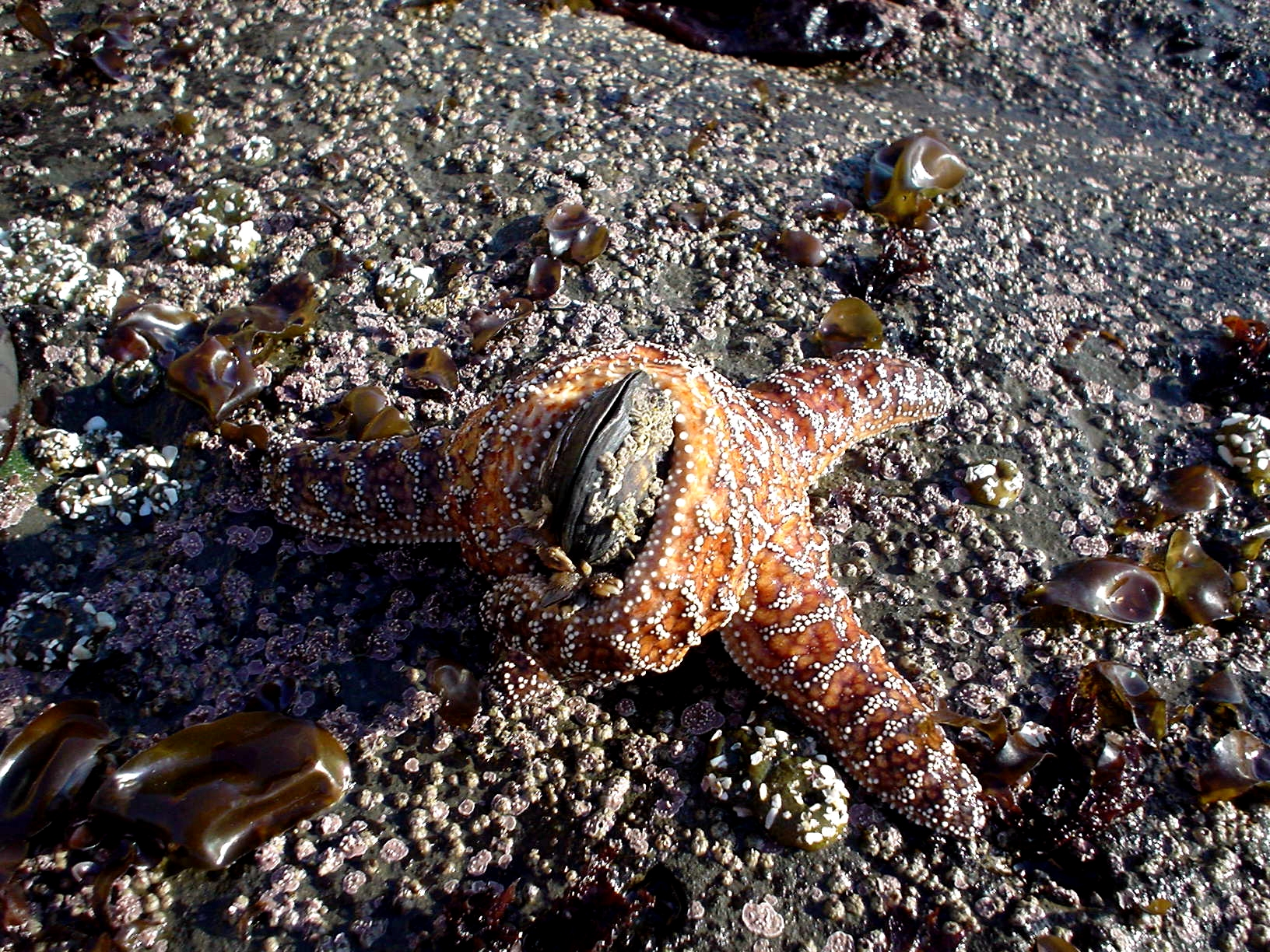 Sea Star is in process of consuming a Mussel. Photograped by Brocken Inaglory in Northern California